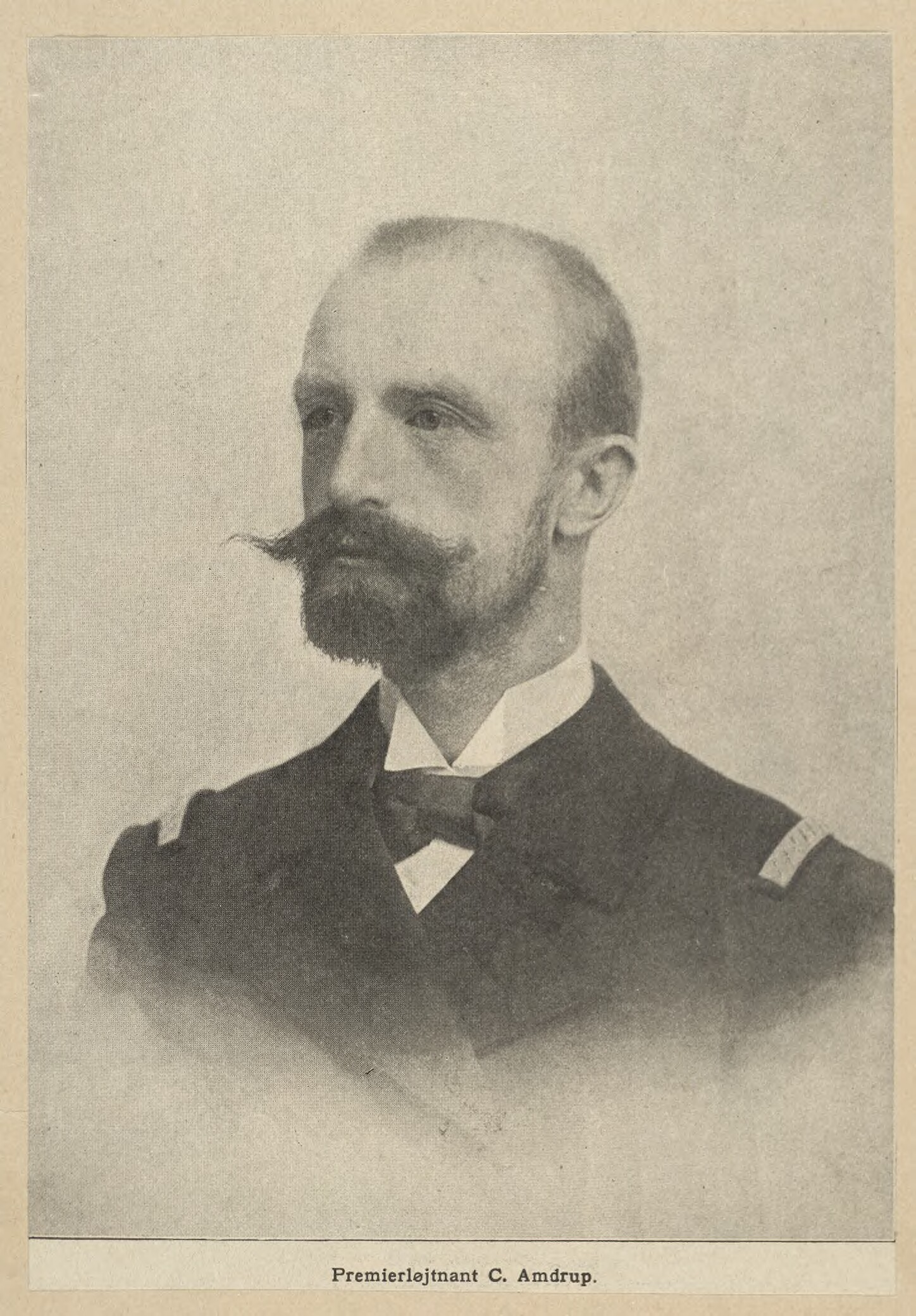 photograph of Georg Carl Amdrup, Danish naval officer, Vice Admiral and Greenland researcher, Premierlojtnant C. Amddrup